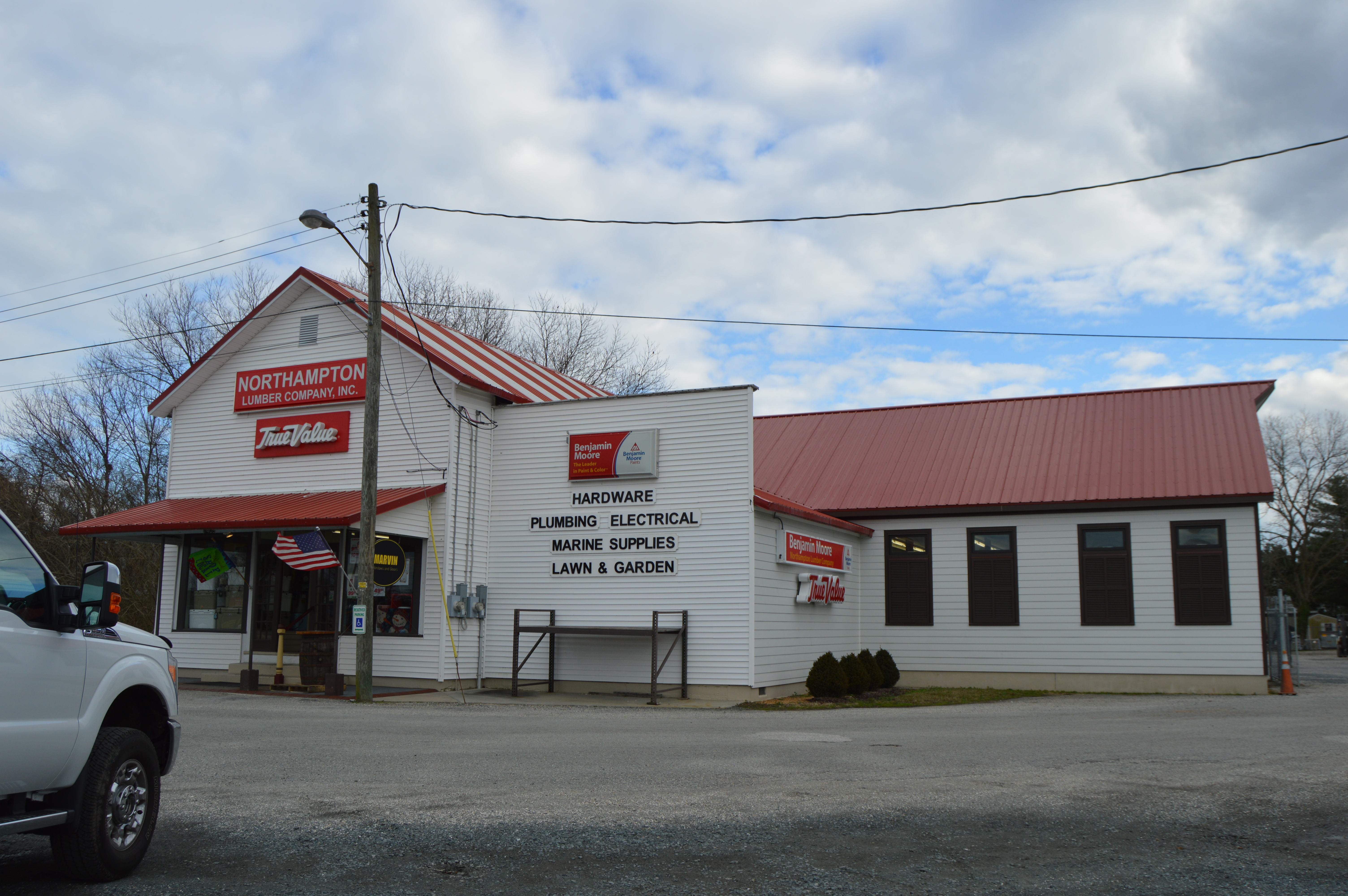 Front of the main building of the Northampton Lumber Company, located along Railroad Street facing U.S. Route 13 at Nassawadox in Northampton County, Virginia, United States. Built in 1898, the store and several related buildings are listed on the National Register of Historic Places as a historic district.